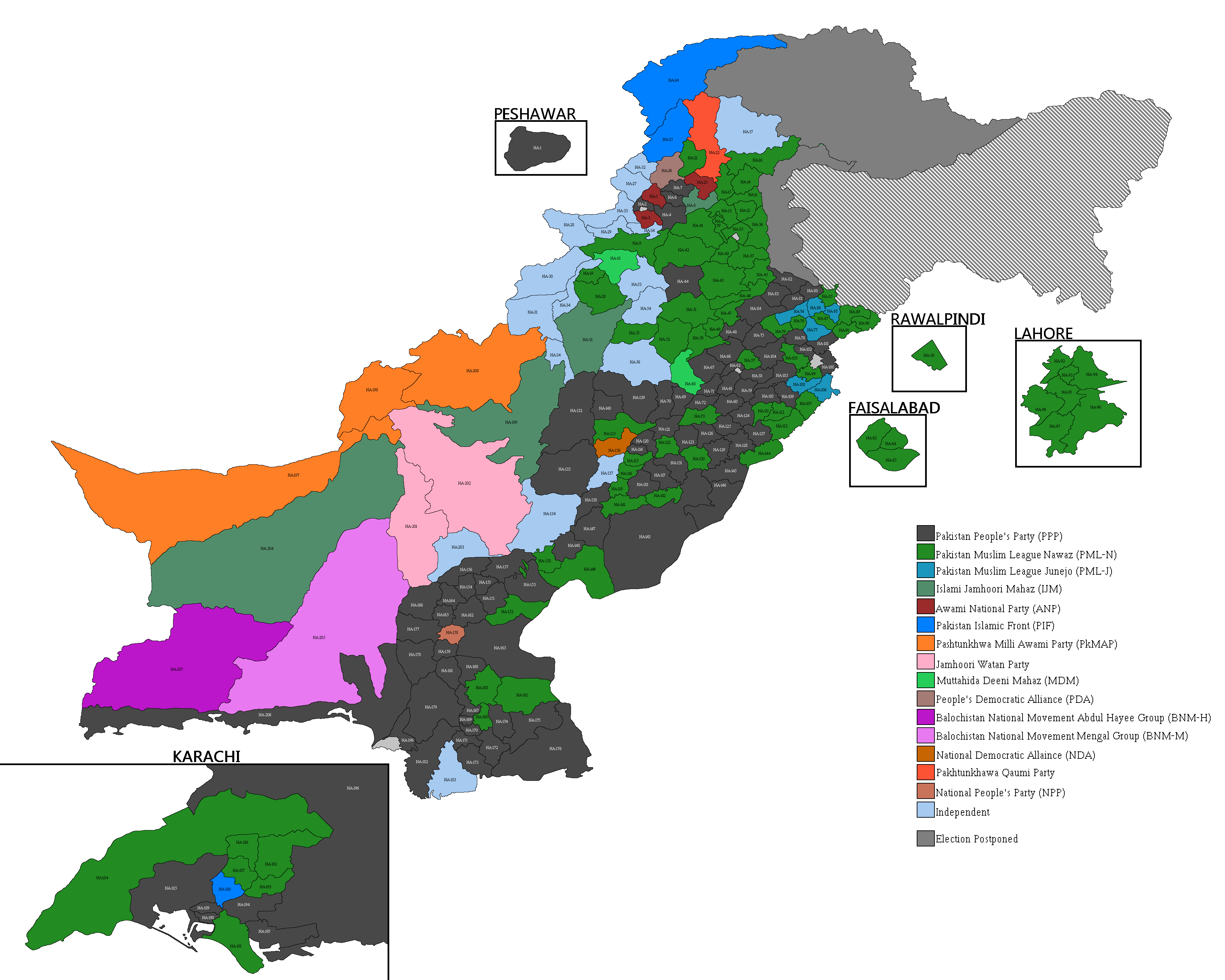 Map of Pakistan showing National Assembly Constituencies and winning parties